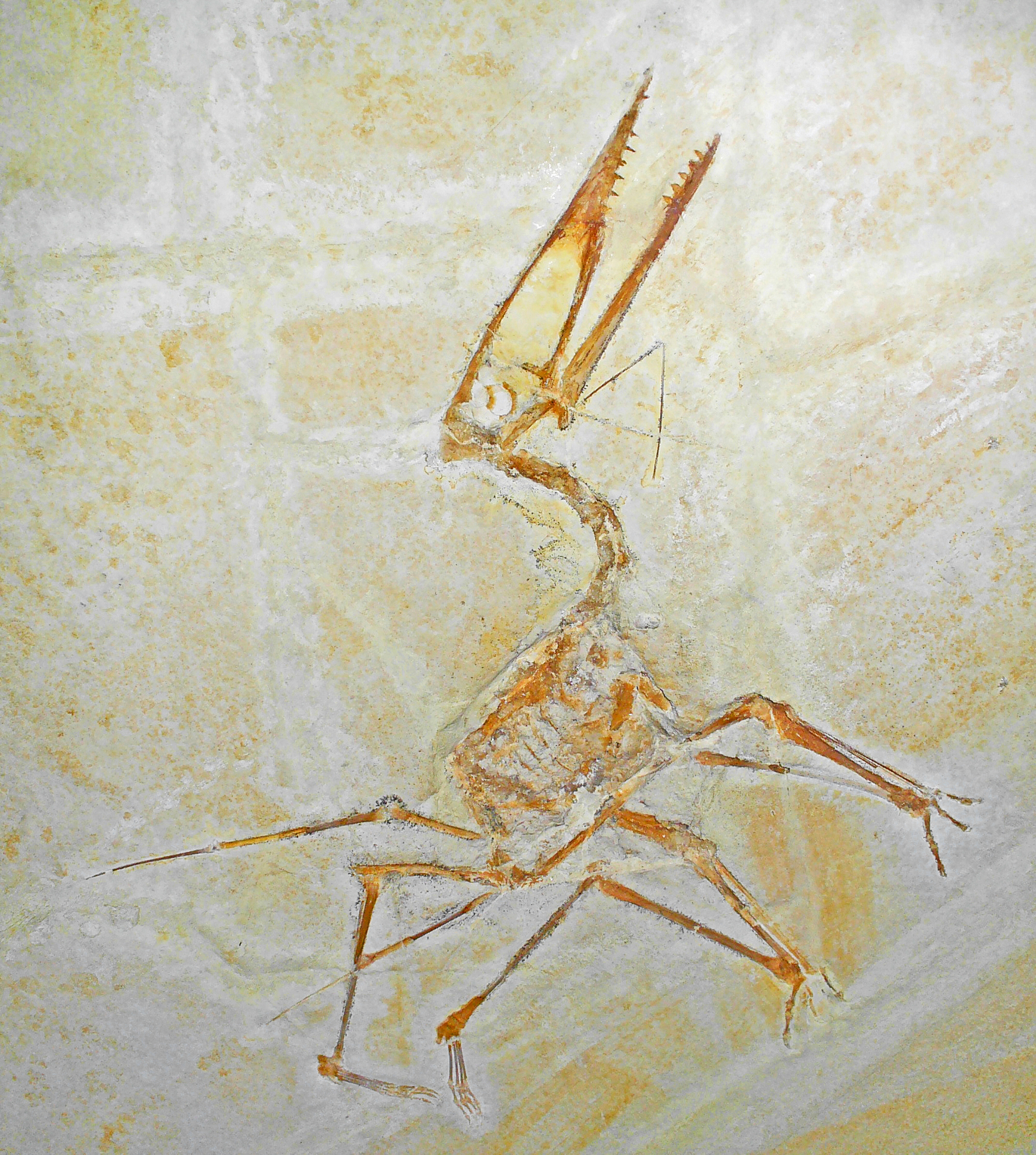 Germanodactylus cristatus specimen SMNK PAL 6592. Germanodactylidae; Upper Jurassic, Eichstätt, Germany; Staatliches Museum für Naturkunde Karlsruhe, Germany.